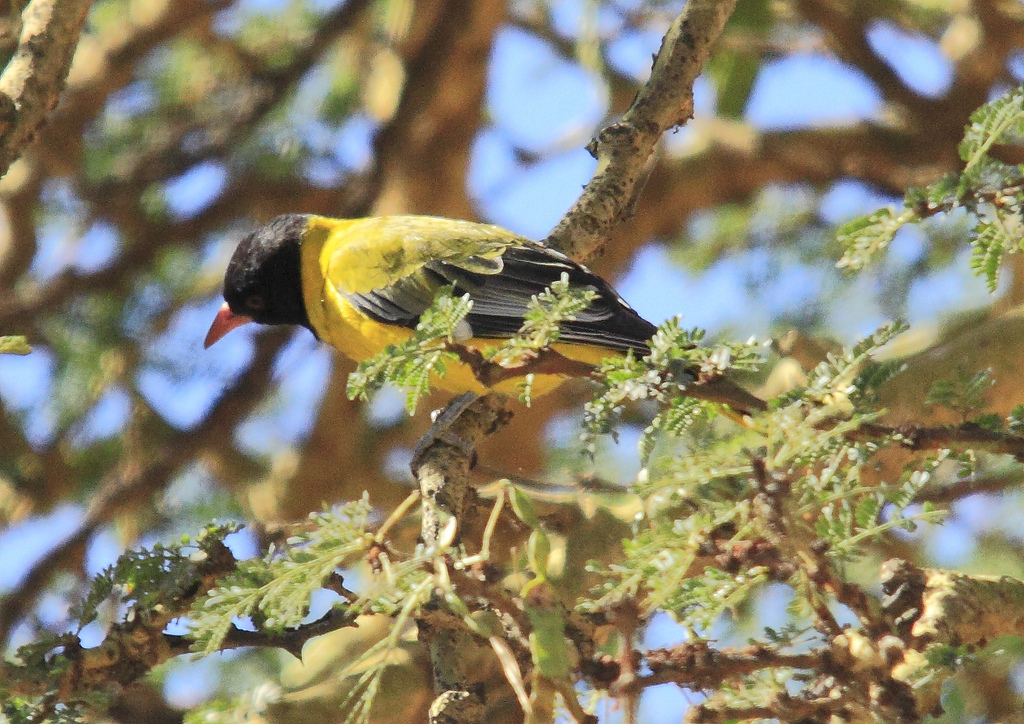 A Black-headed Oriole at Hells Gate National Park, Naivasha, Kenya.